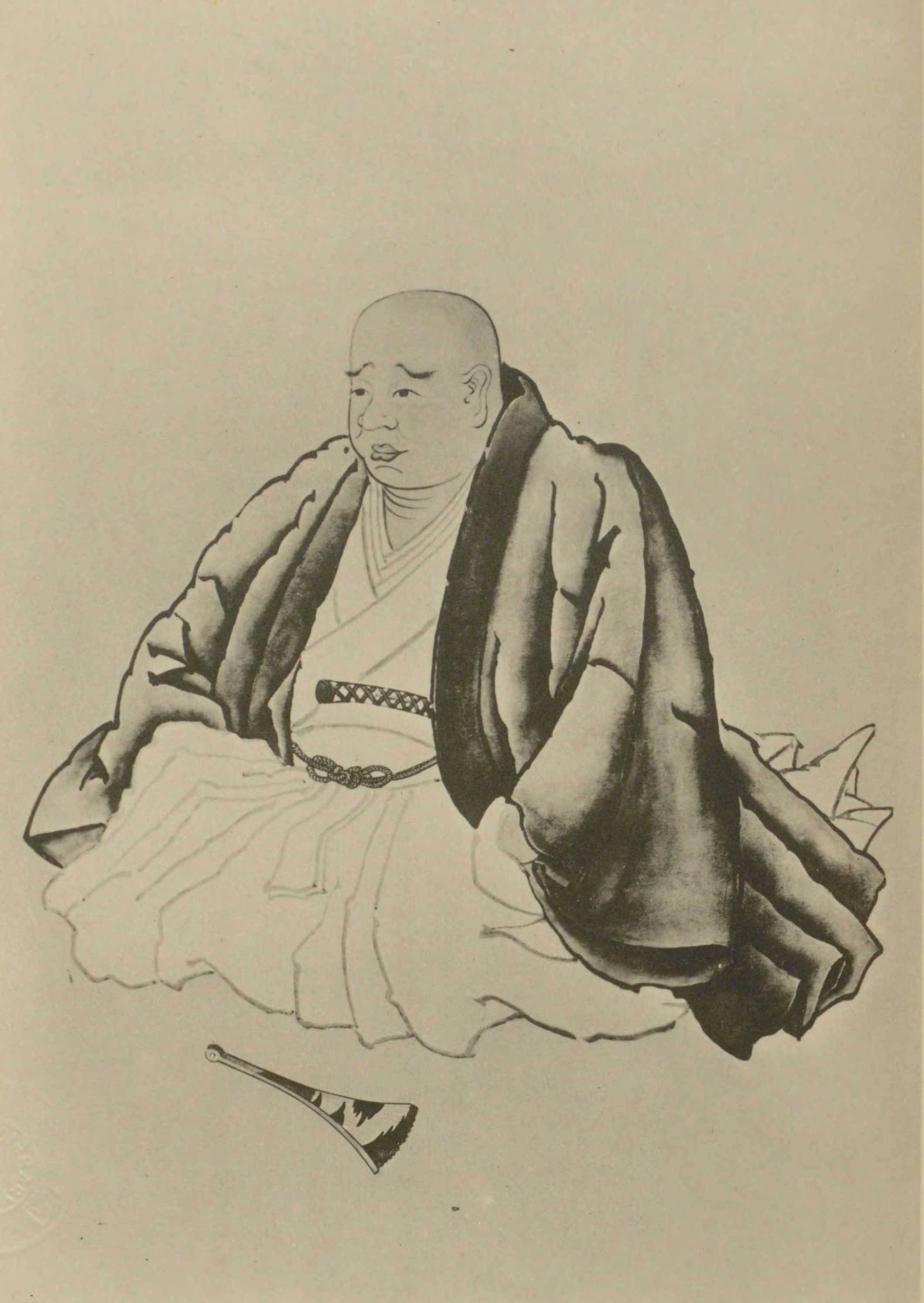 Portrait of Taki Motoyasu